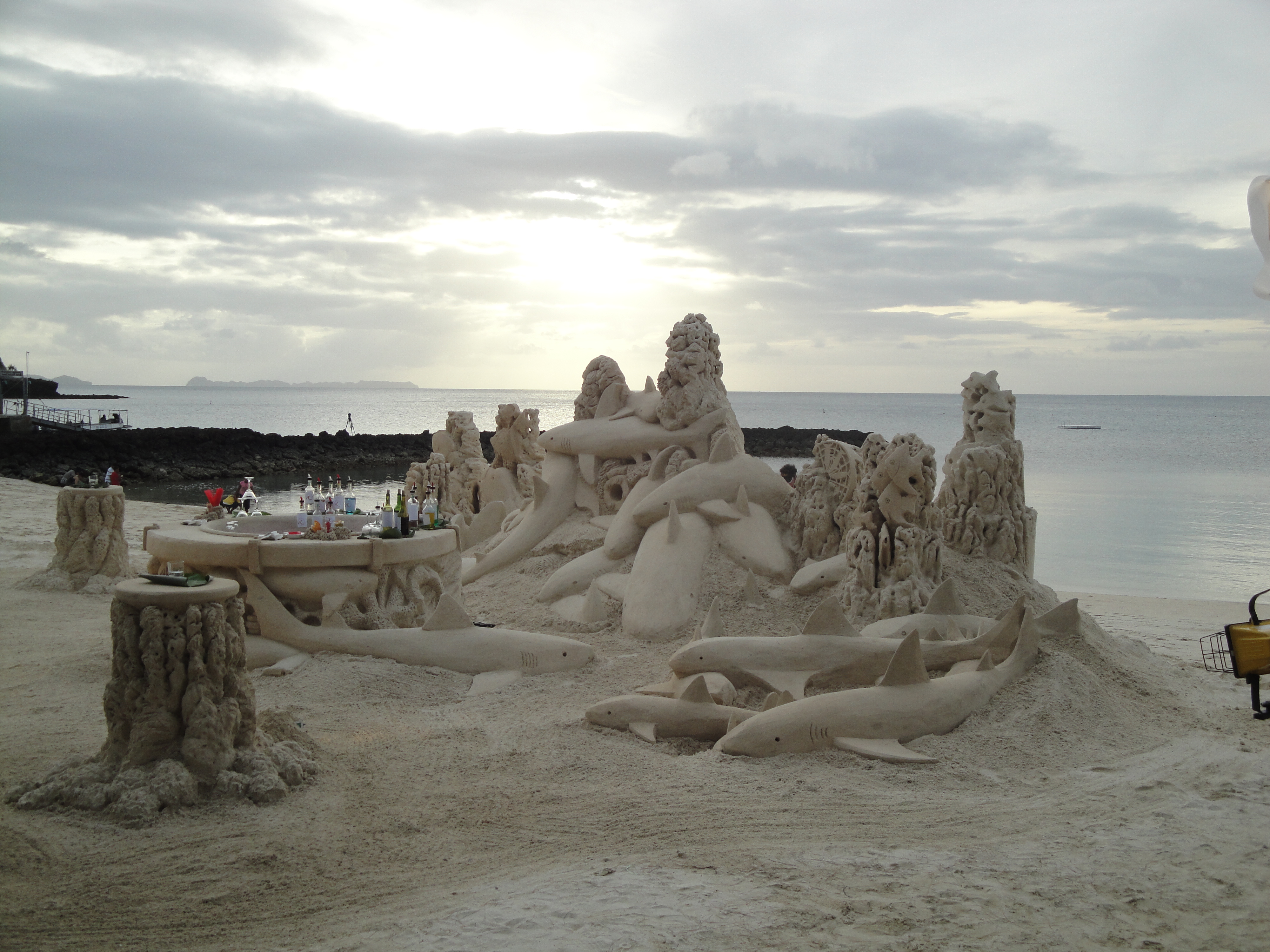 Sand sculpture at a Palauan beach for the celebration of the shark sanctuary